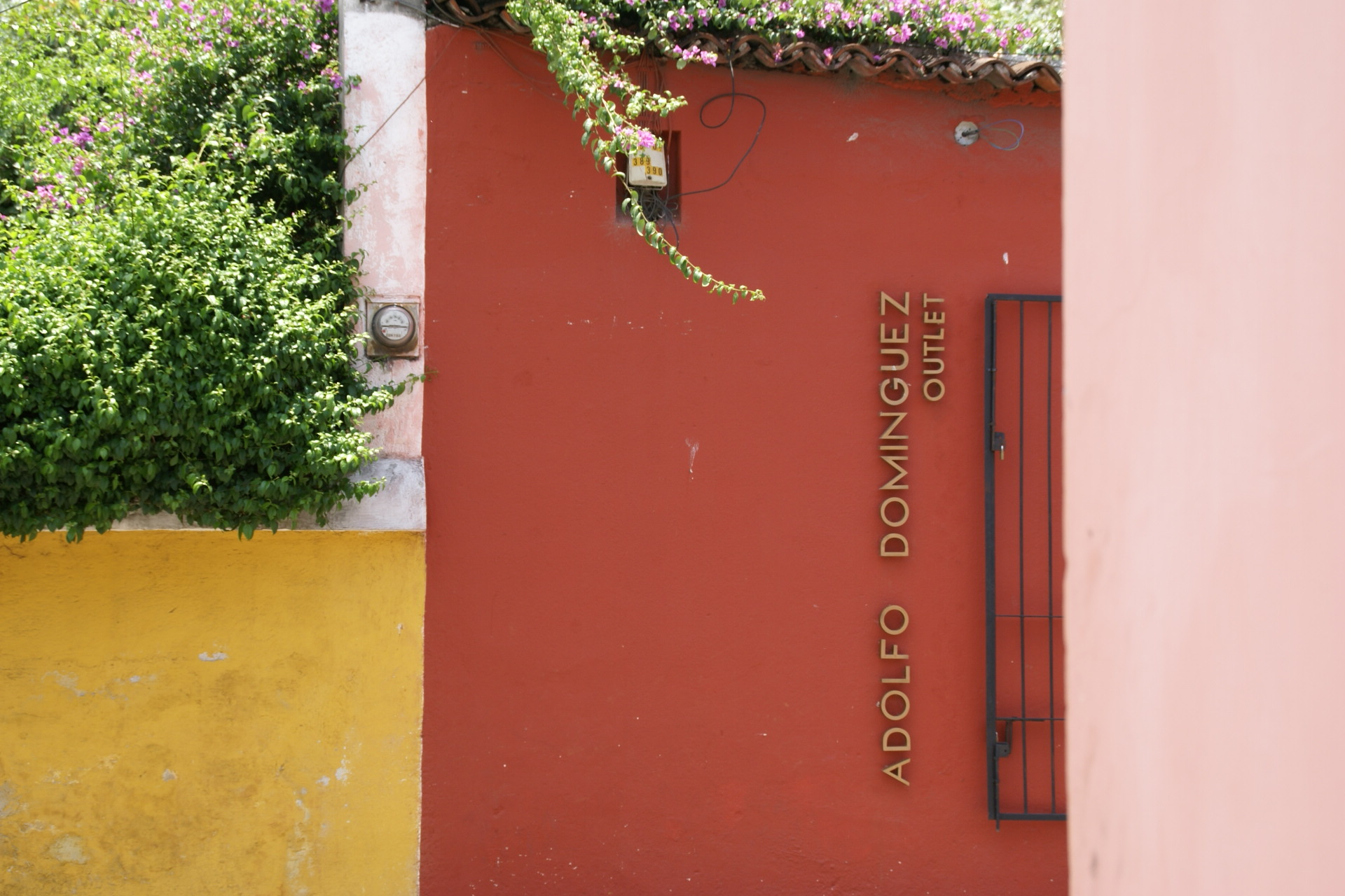 Adolofo Domínguez outlet in Antigua Guatemala